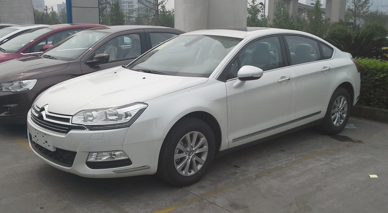 Citroën C5 II CN facelift photographed in Chongqing, China.